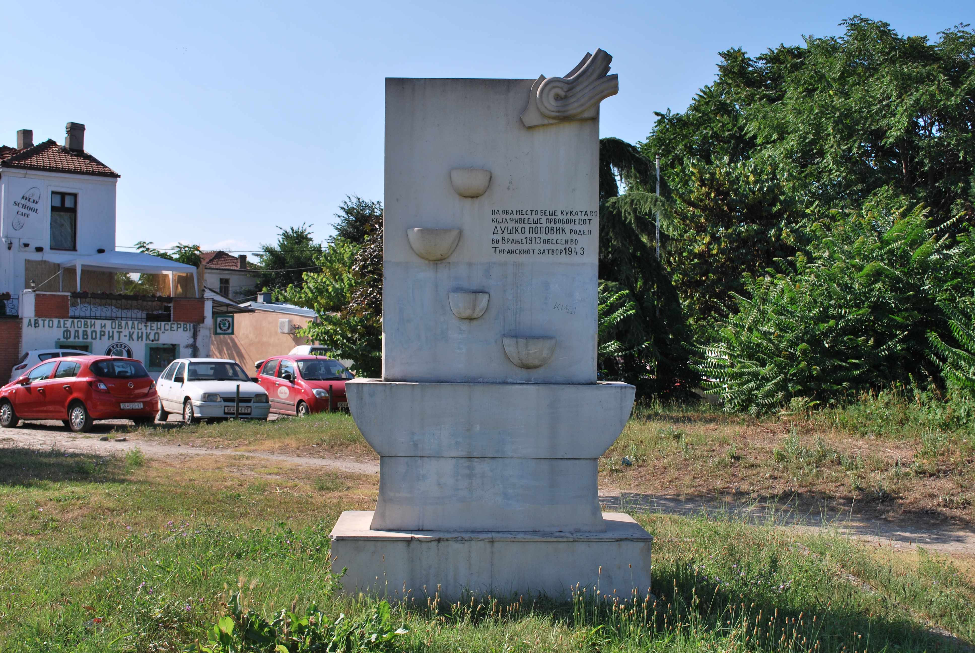 IMonument of Duško Popović in Skopje, Macedonia